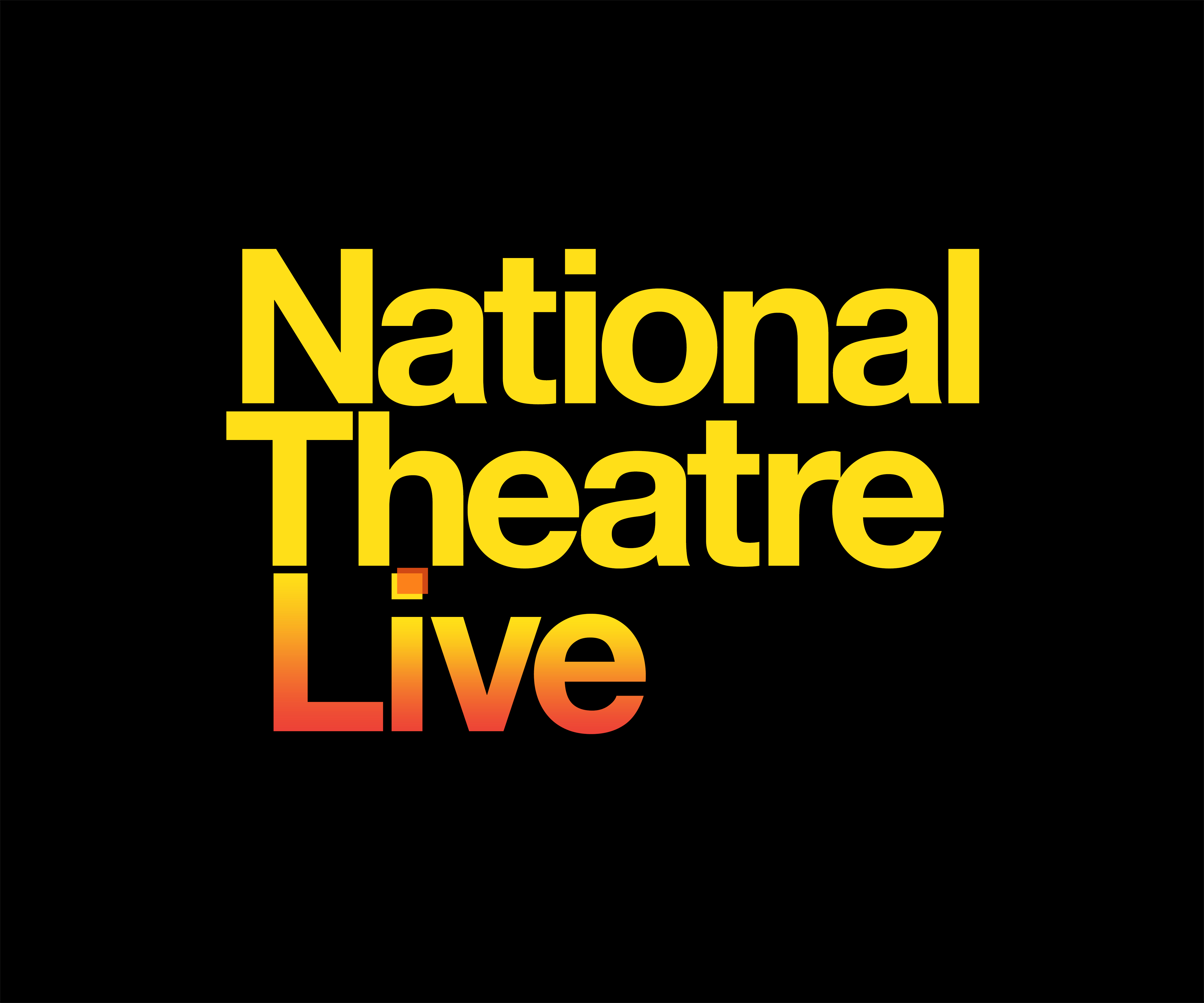 The logo of National Theatre Live